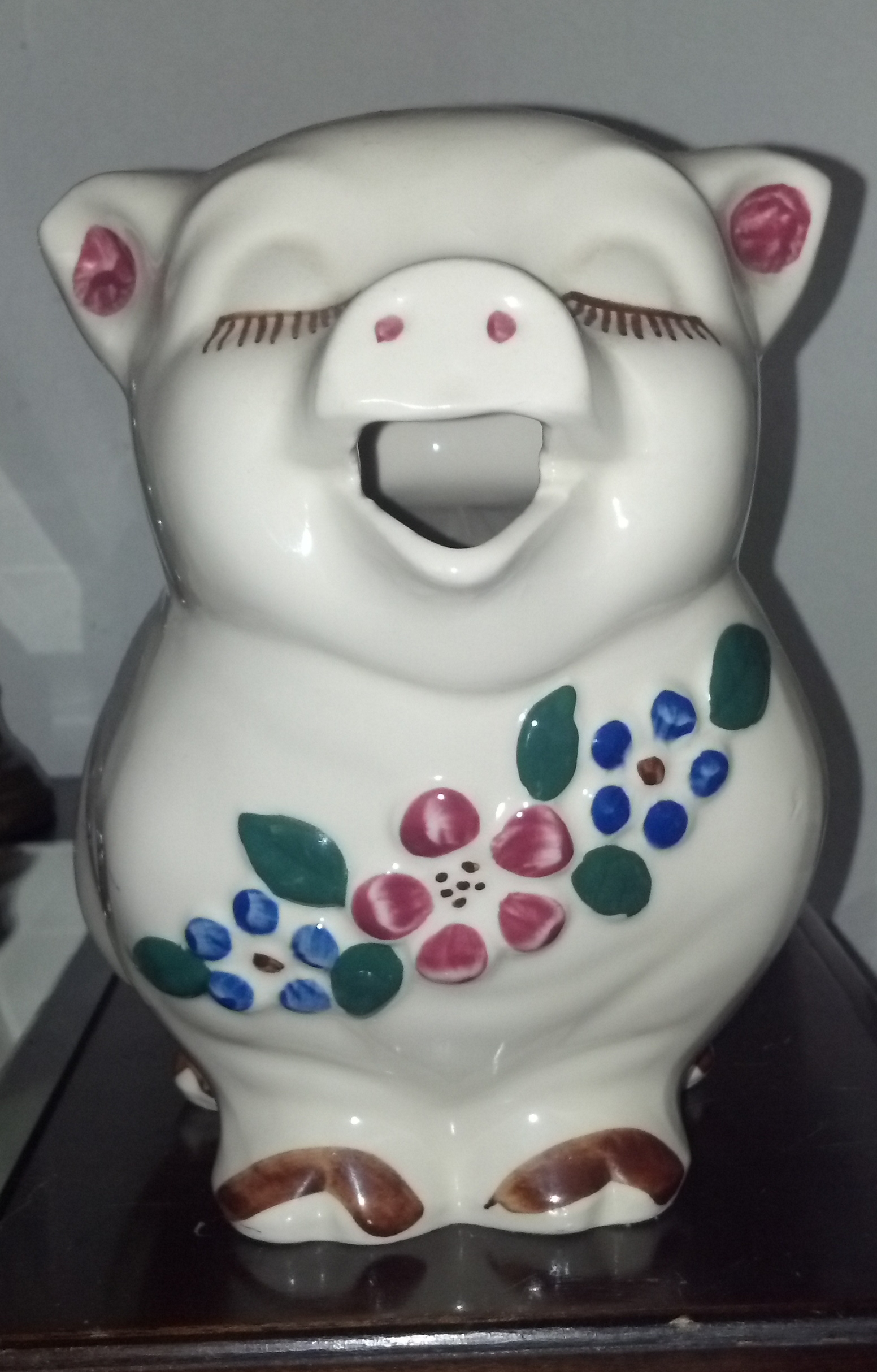 Shawnee Pottery Smiley Pig pitcher owned by Maggie Ford